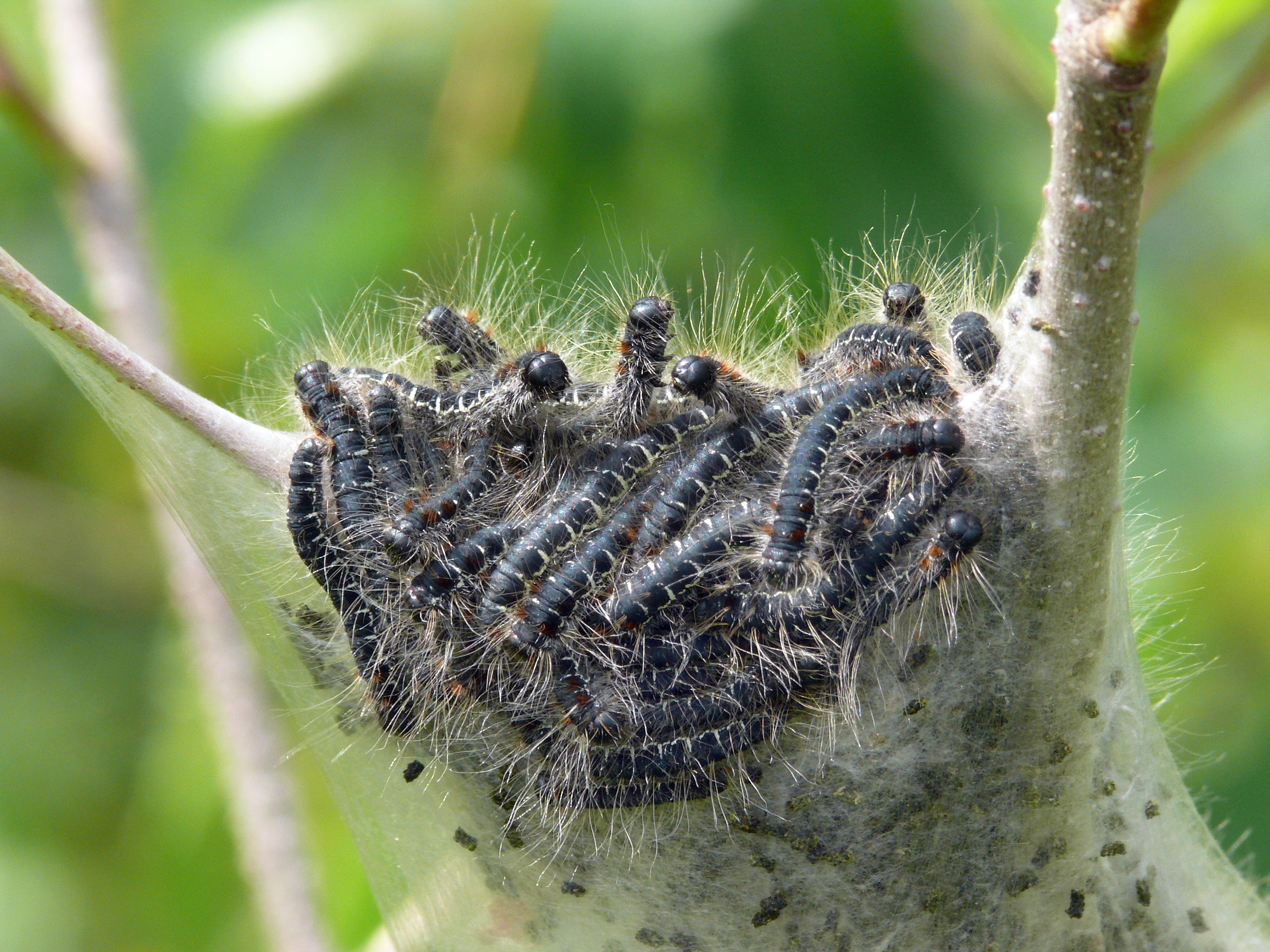 Buckland Wood, Somerset